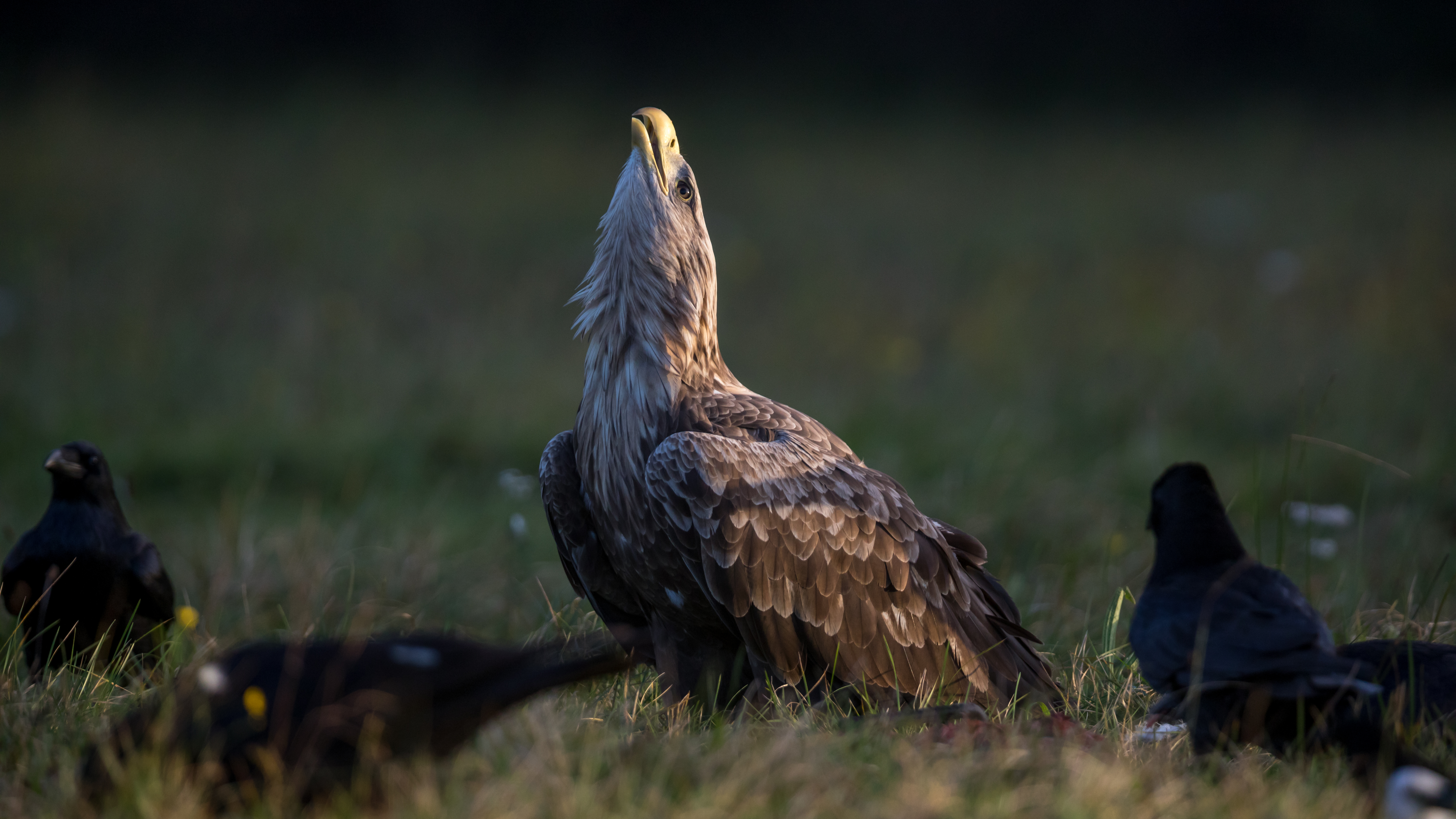 In the Gostynin-Wloclawek nature reserve several White-tailed Eagles Haliaeetus albicilla overwinter; this is a natural habitat for these gigantic birds. Here an adult eagle defends its prey caught at sunrise with the typical gesture of a raised beak and short guttural calls.